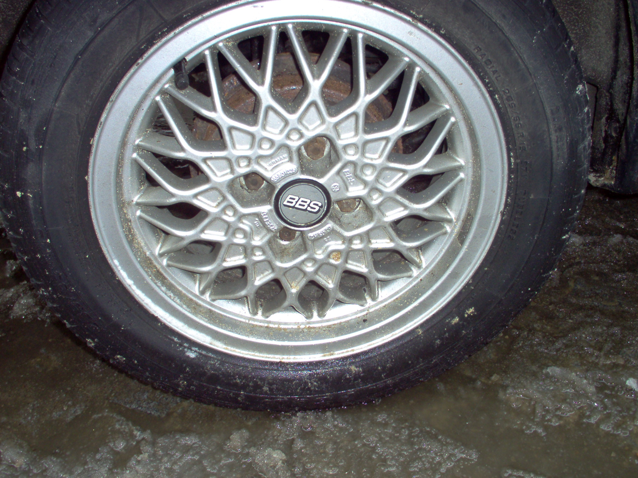 BBS rim.